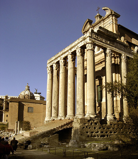 San Lorenzo in Miranda, formerly the Temple of Antoninus and Faustina , Roman Forum.